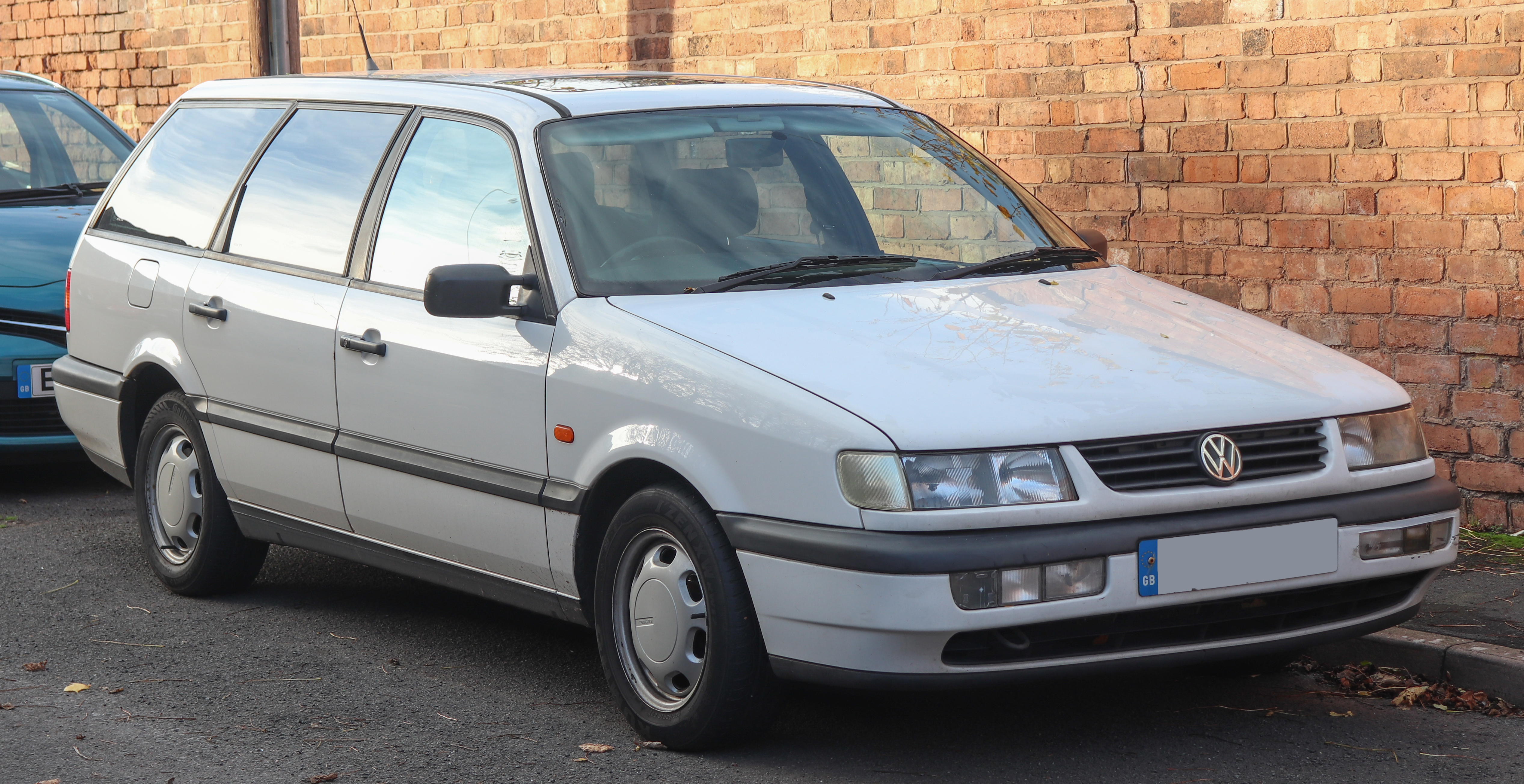 1995 Volkswagen Passat Variant CL TD Umwelt 1.9 Front Taken in Leamington Spa